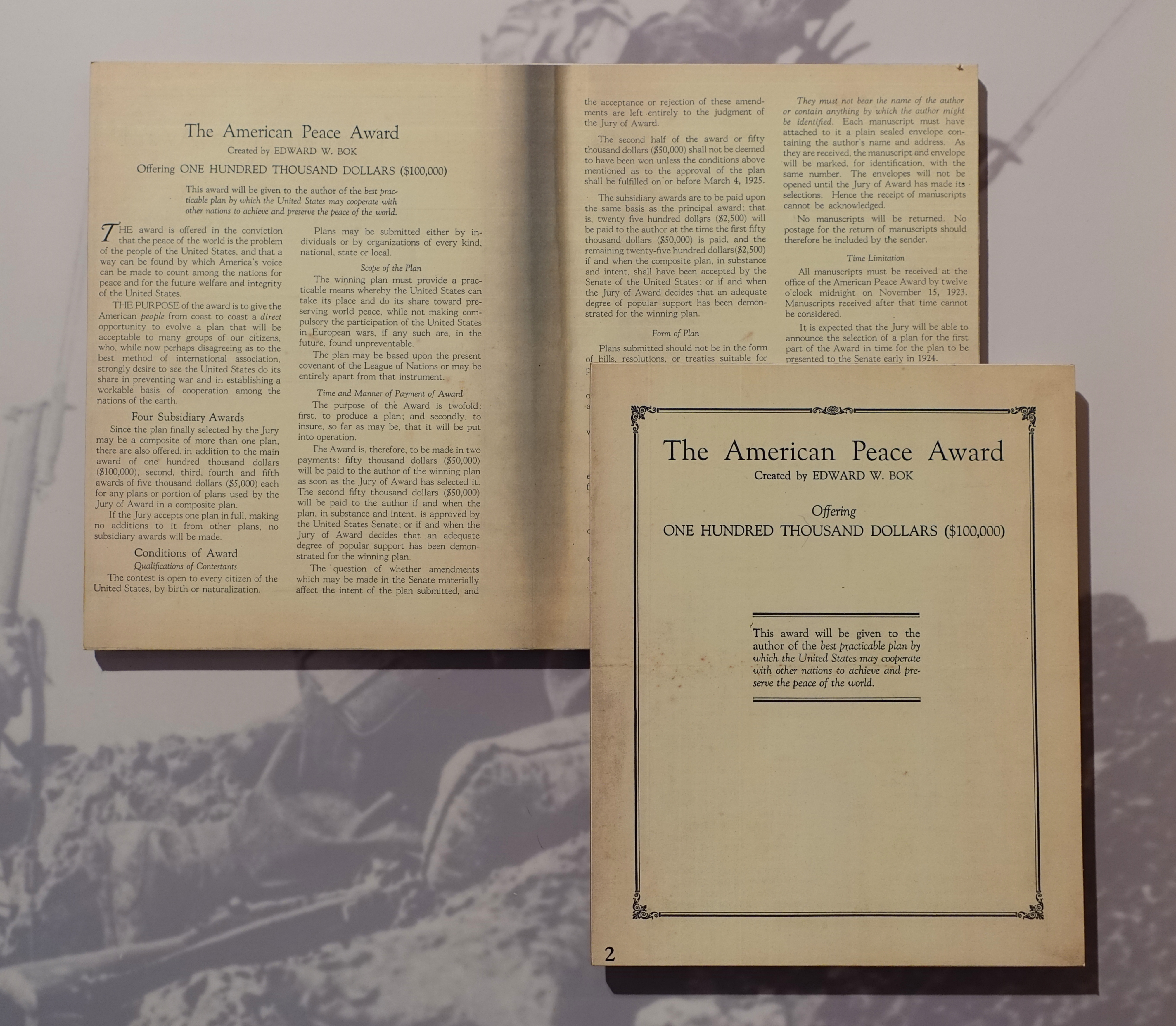 The American Peace Award, created by Edward W. Bok - Bok Tower Gardens, Florida, USA.